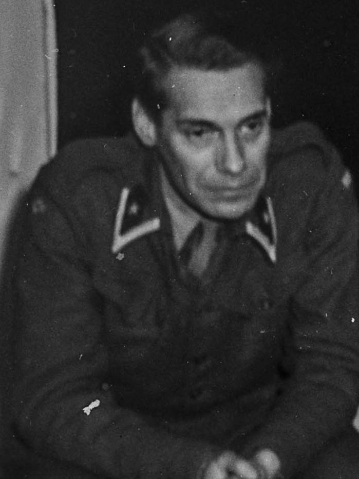 Photos from Flickr album "Evakueringen og frigjøringen av Finnmark" (The Evacuation and Liberation of Finnmark, 2015) ny Riksarkivet (National Archives of Norway). Towards the end of World War II, with Operation Nordlicht, the Germans used the scorched earth tactic in Finnmark and northern Troms to halt the Red Army. As a consequence of this, few houses survived the war, and a large part of the population was forcefully evacuated further south (Tromsø was crowded), but many people avoided evacuation by hiding in caves and mountain huts and waited until the Germans were gone, then inspected their burned homes. There were 11,000 houses, 4,700 cow sheds, 106 schools, 27 churches, and 21 hospitals burned. There were 22,000 communications lines destroyed, roads were blown up, boats destroyed, animals killed, and 1,000 children separated from their parents. However, after taking the town of Kirkenes on 25 October 1944 (as the first town in Norway), the Red Army did not attempt further offensives in Norway. The town was handed over to Norway as the war ended. When war was over, more than 70,000 people were left homeless in Finnmark. The government imposed a temporary ban on residents returning to Finnmark because of the danger of landmines. The ban lasted until the summer of 1945 when evacuees were told that they could finally return home.